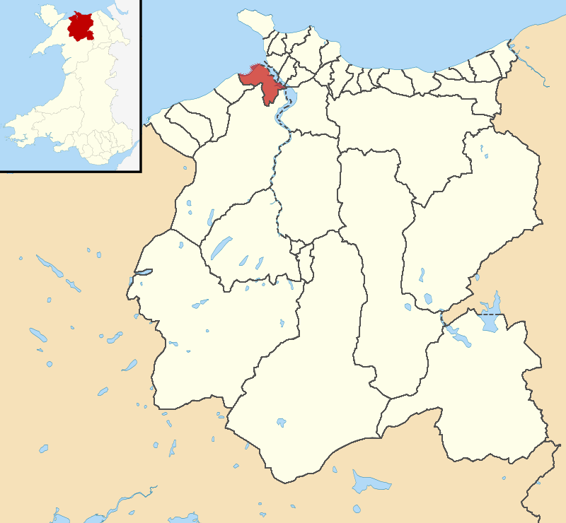 Location map of Conwy electoral ward in Conwy County Borough, Wales, which covers part of the community (and town) of Conwy.